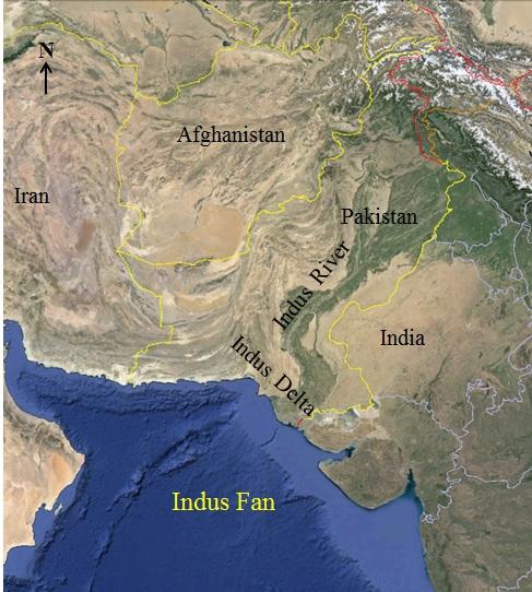 Indus Fan